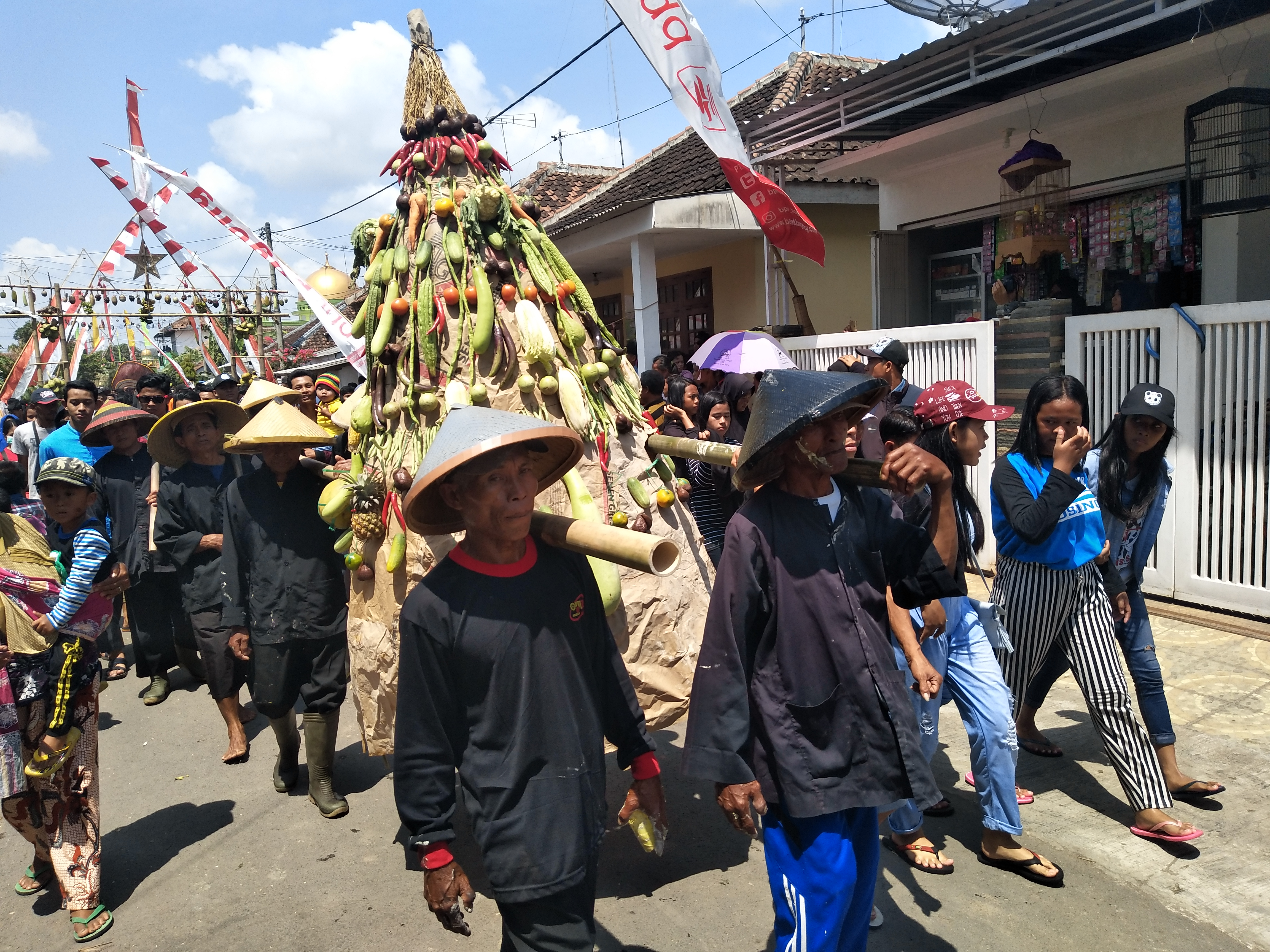 Ngider Bumi Ceremony, Kebo-keboan Alasmalang, Banyuwangi. On 1 Suro Month (Hijiri New Year) in the Javanese calendar every year, the Alasmalang Community, Banyuwangi Regency, routinely holds the Ngider Bumi event. In the procession or Ngider Bumi, Dewi Sri as a symbol of Dewi Padi (Goddess of Fertility) riding on a stretcher pulled by 2 people decorated with buffalo (kebo), this is a symbol of the gratitude of the local community for God's Blessings of God's Blessings. Most Gracious, good health blessings, fortune, long life and others. There are several series of events in the Earth Ngider ceremony, including: 1. Installation of the Planted Gate (done a week before the event begins); 2. Decking the Village Gate (Done e the day before the ceremony); 3. Village selametan and planting palawija (A day before the ceremony) 4. Festival Kebo-keboan and procession (Ngider Bumi)